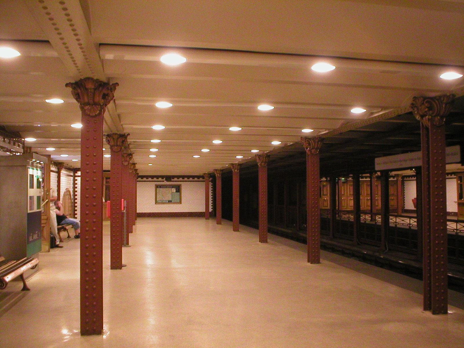 The Budapest Földalatti station "Opera"